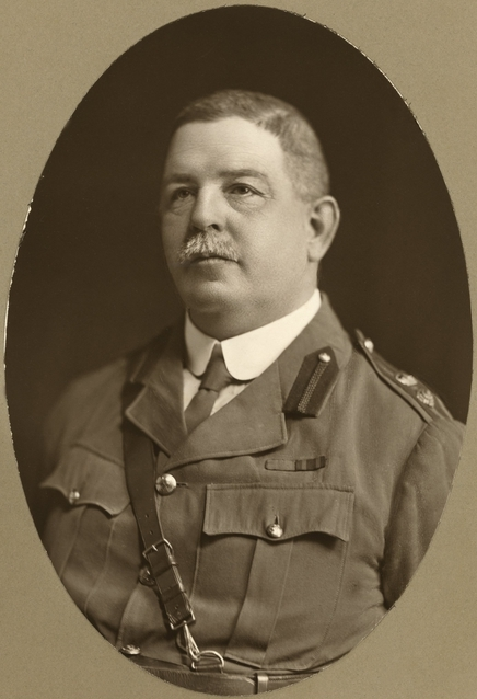 Portrait of Lieutenant Colonel (later Brigadier General) John Patrick McGlinn, a senior officer in the Australian Imperial Force, circa 1916–1917.